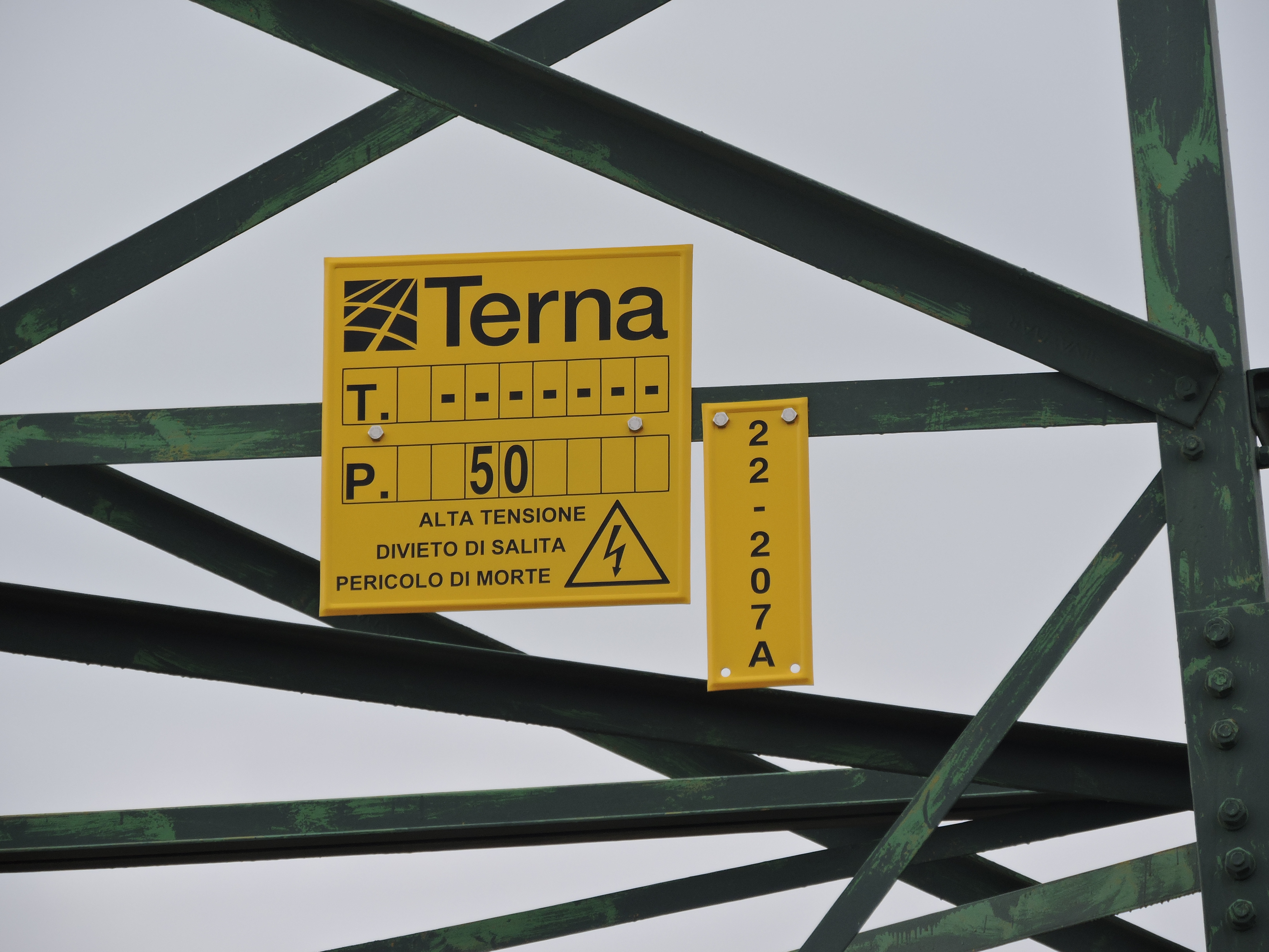 Information panel on a high voltage line of Terna Group (Quart, AO, Italy)